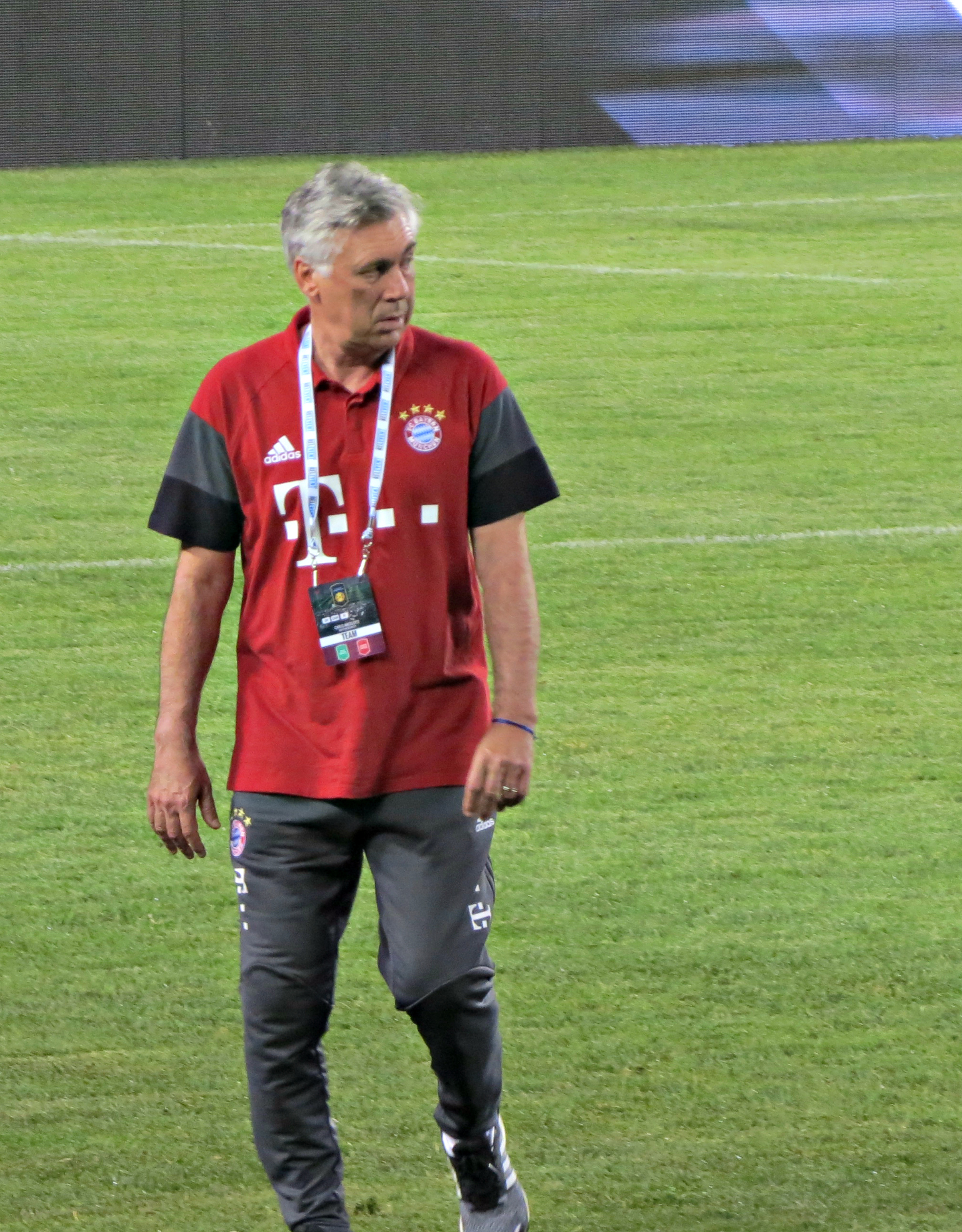 Carlo Ancelotti, Bayern Munich v AC Milan, International Champions Cup 2016